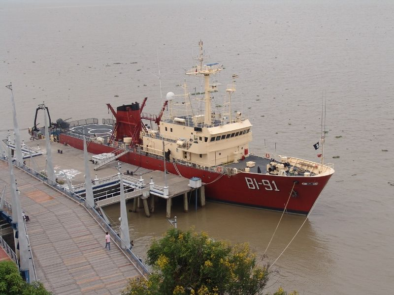 Ship of investigation BAE Orión of the Navy of the Ecuador.